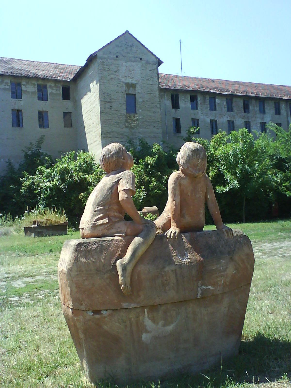 Atelje je smešten u starom pogonu industrije gradjevinskog materijala Toza Marković